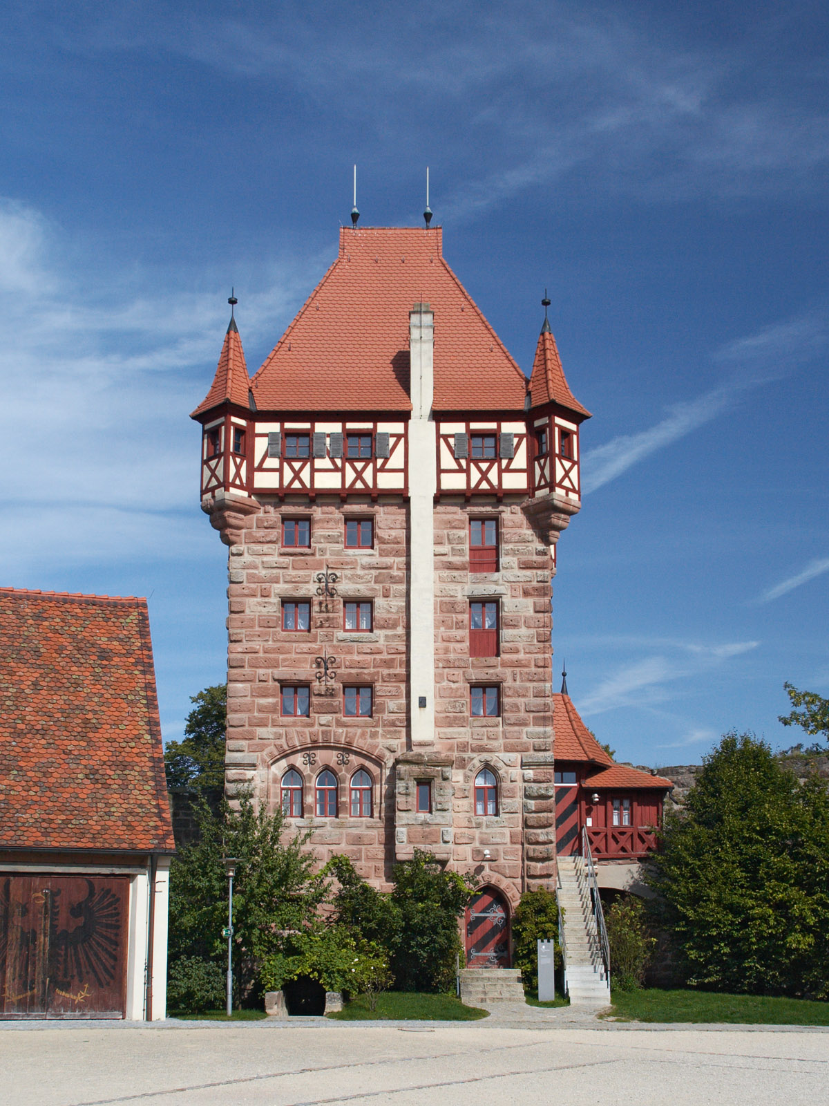 Picture of the Schottenturm on Burg Abenberg, taken from south.